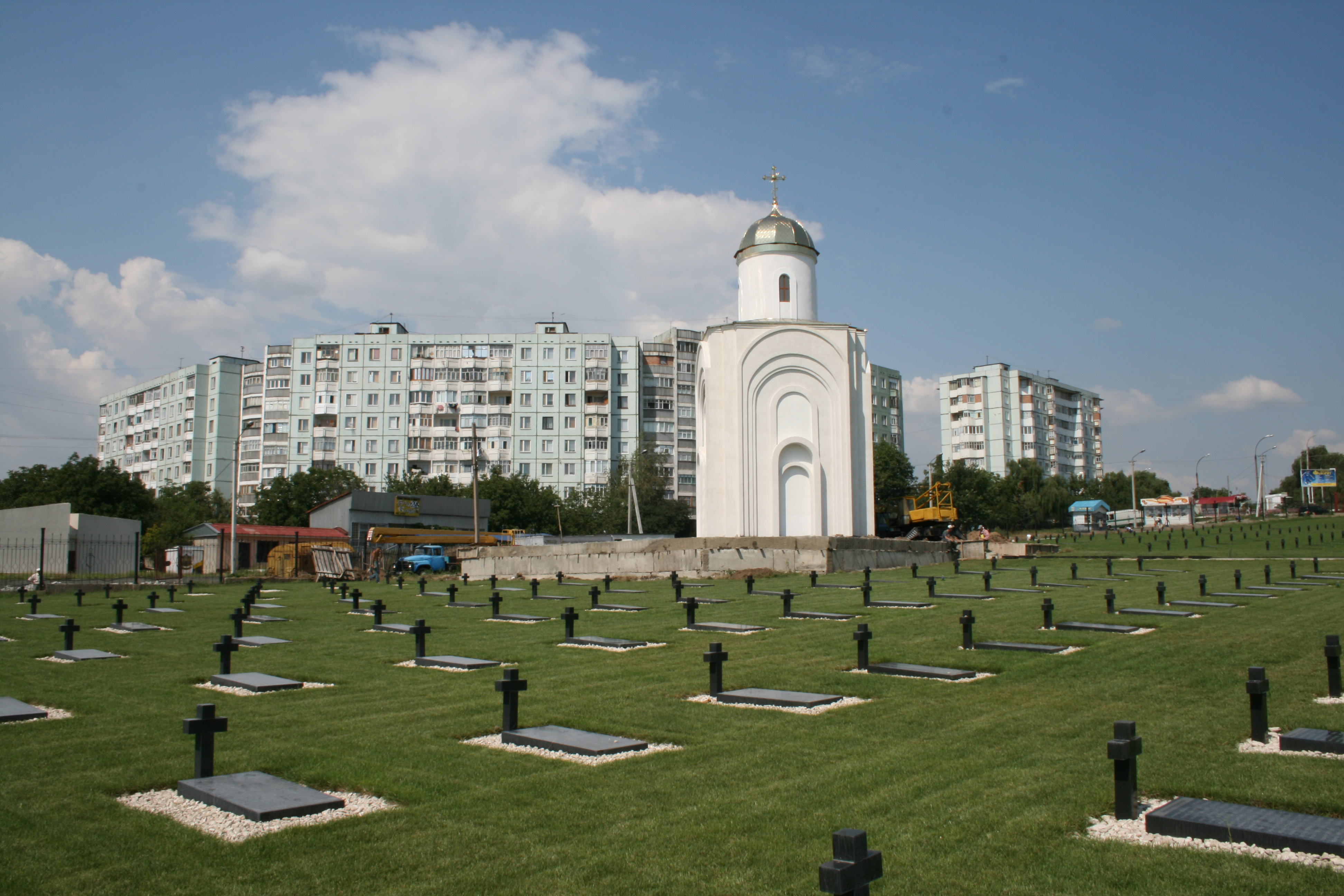 the War-Cemetery in Bendery in Transnistria